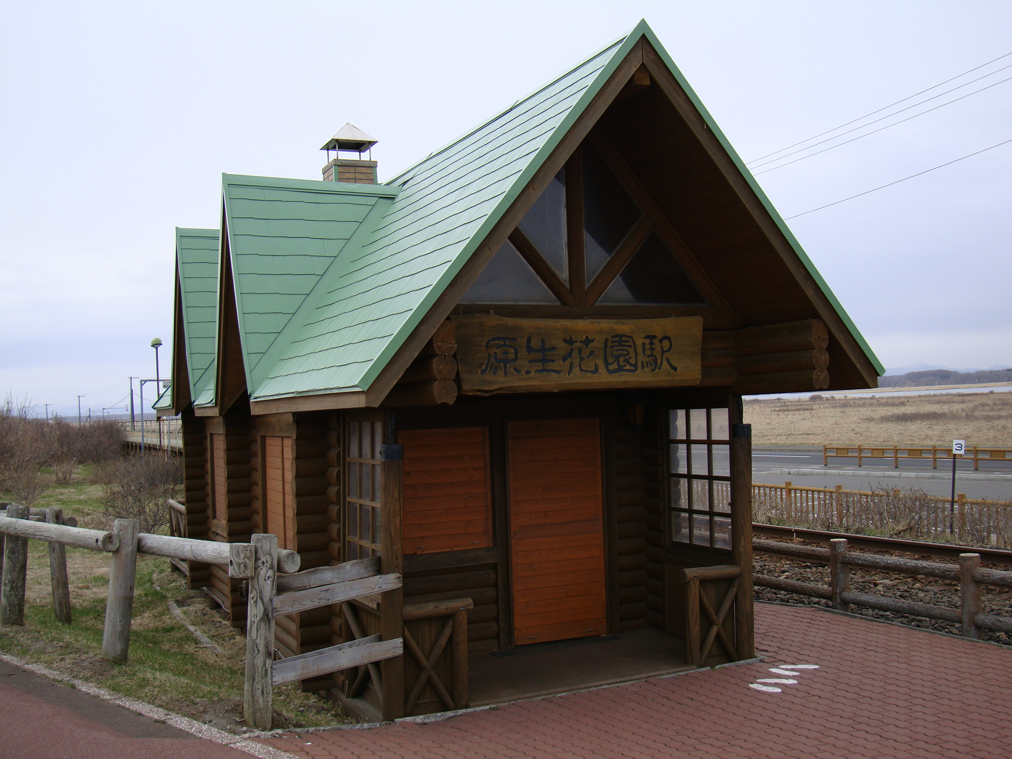 Genseikaen Station